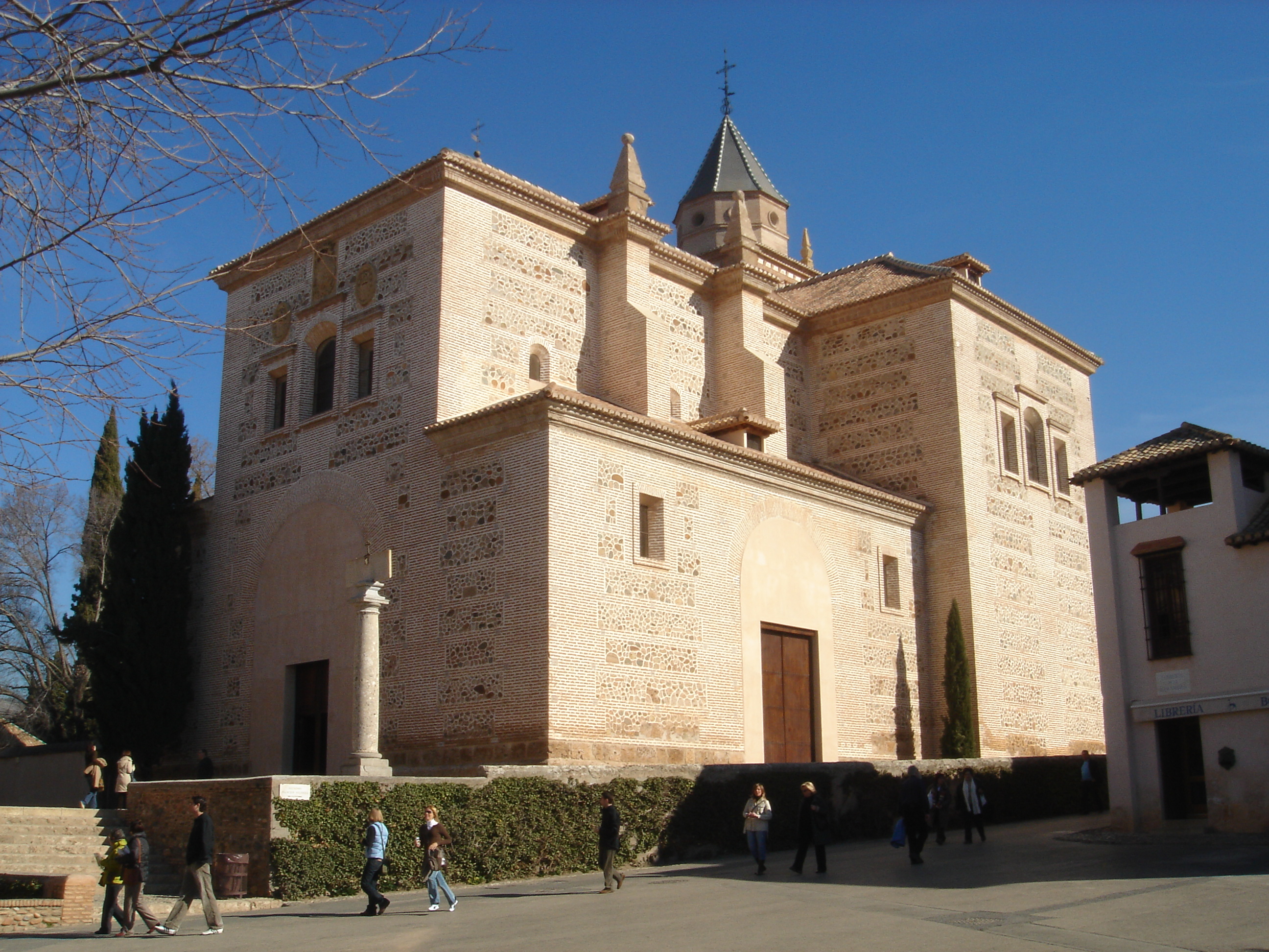 Monument: Santa María de la Alhambra, Church